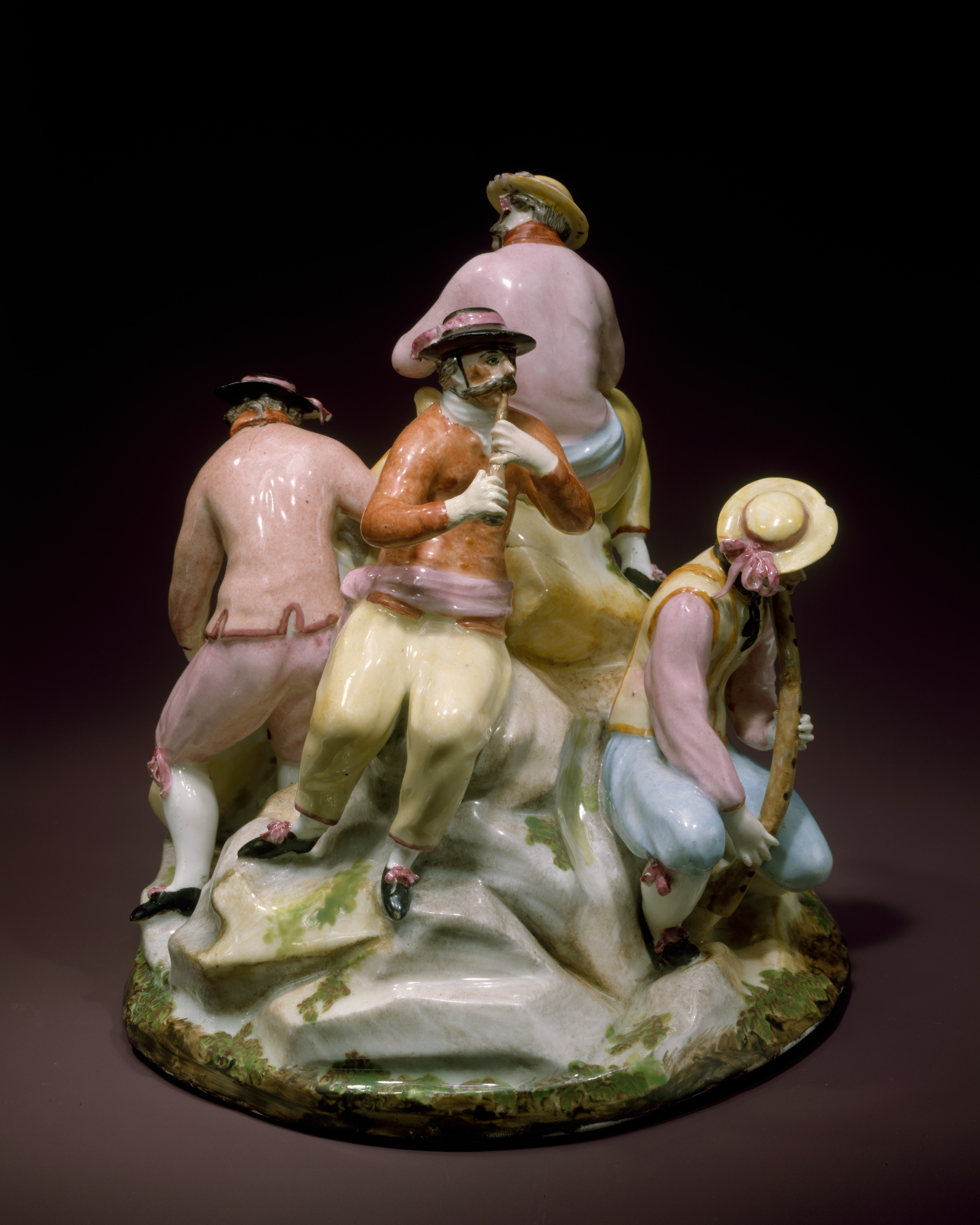 Swiss, Zurich; Group; Ceramics-Porcelain